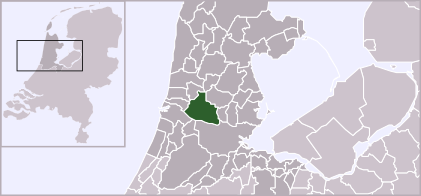 Location of Zaanstad